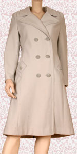 Grey Trenchcoat